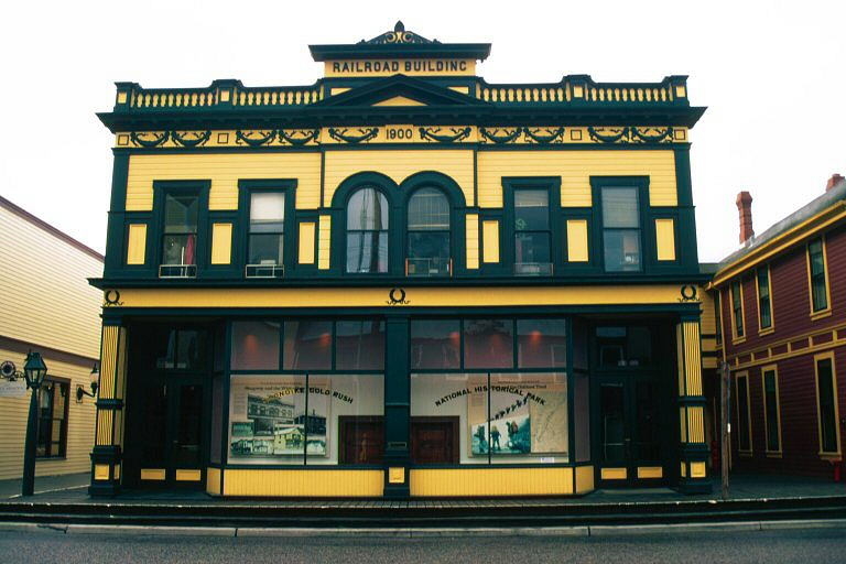 This was the office building and train station (the red building on the right) for the White Pass and Yukon Route Railway, built to serve the gold-rushers during the Klondike gold rush. It is now a museum and the home of the Klondike Gold Rush National Historical Park. A great deal of historic Skagway is part of the NHP and is maintained by the US National Park Service. (Skagway, Alaska, USA) Shot with a Canon EOS Rebel on Fuji Velvia film. Scanned from the slide. See publication info in comments below.